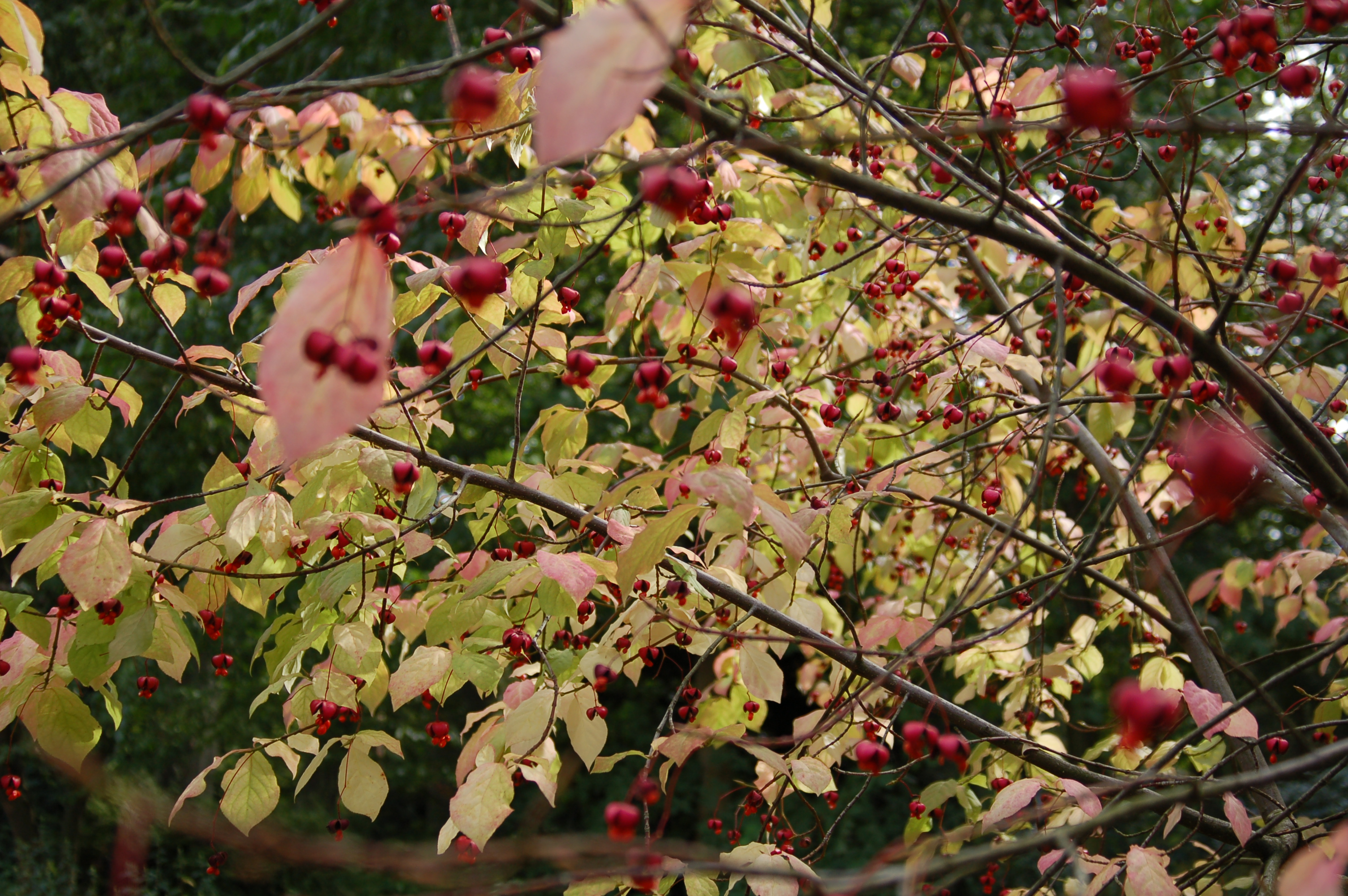 Euonymus planipes - Botanical Garden Bremen